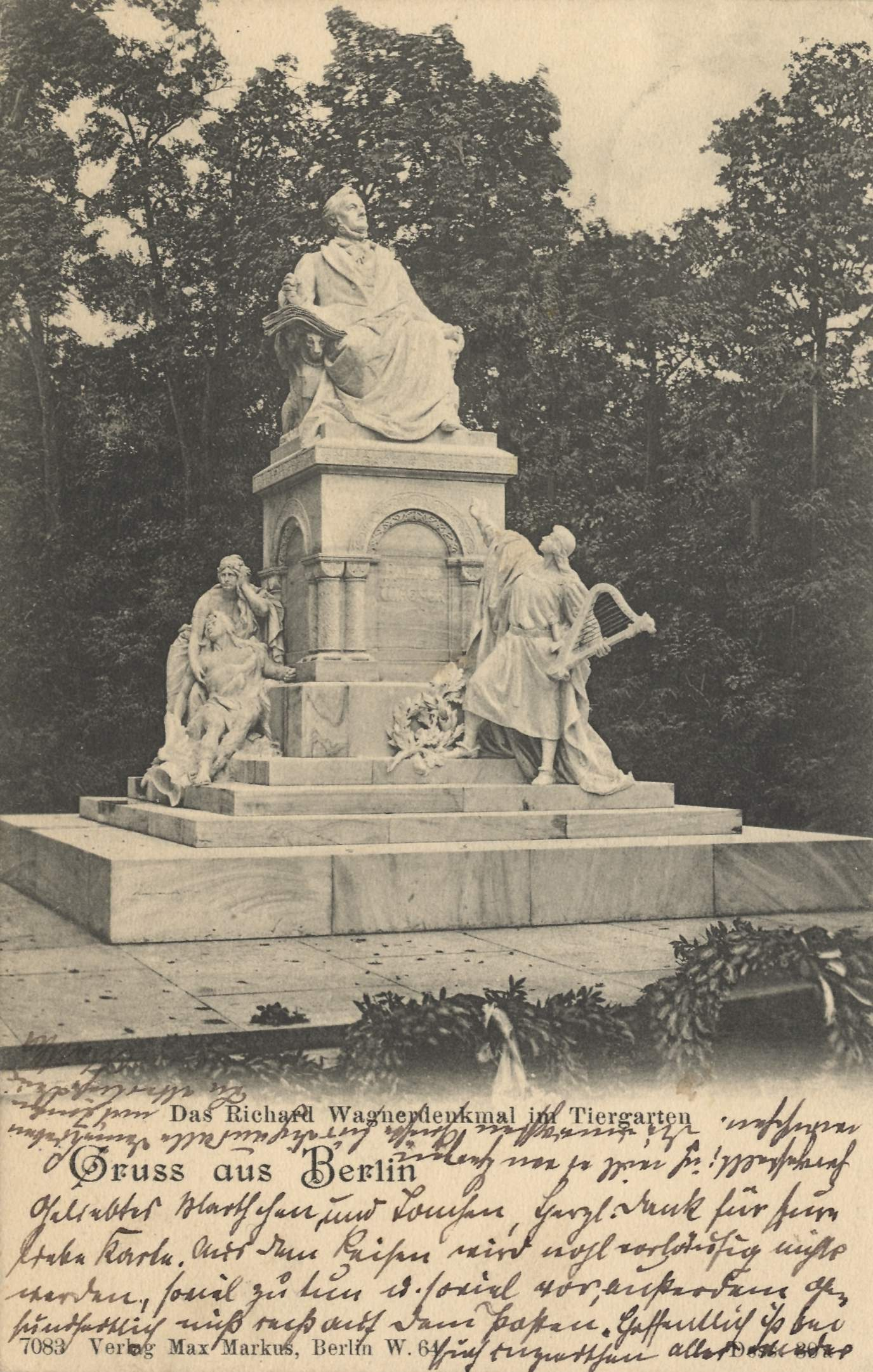 Berlin - Tiergarten - memorial for Richard Wagner